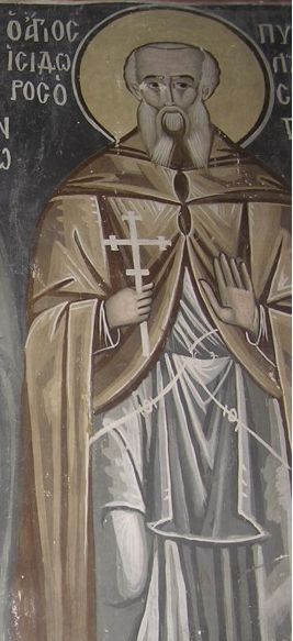 St. Isidore of Pelusium